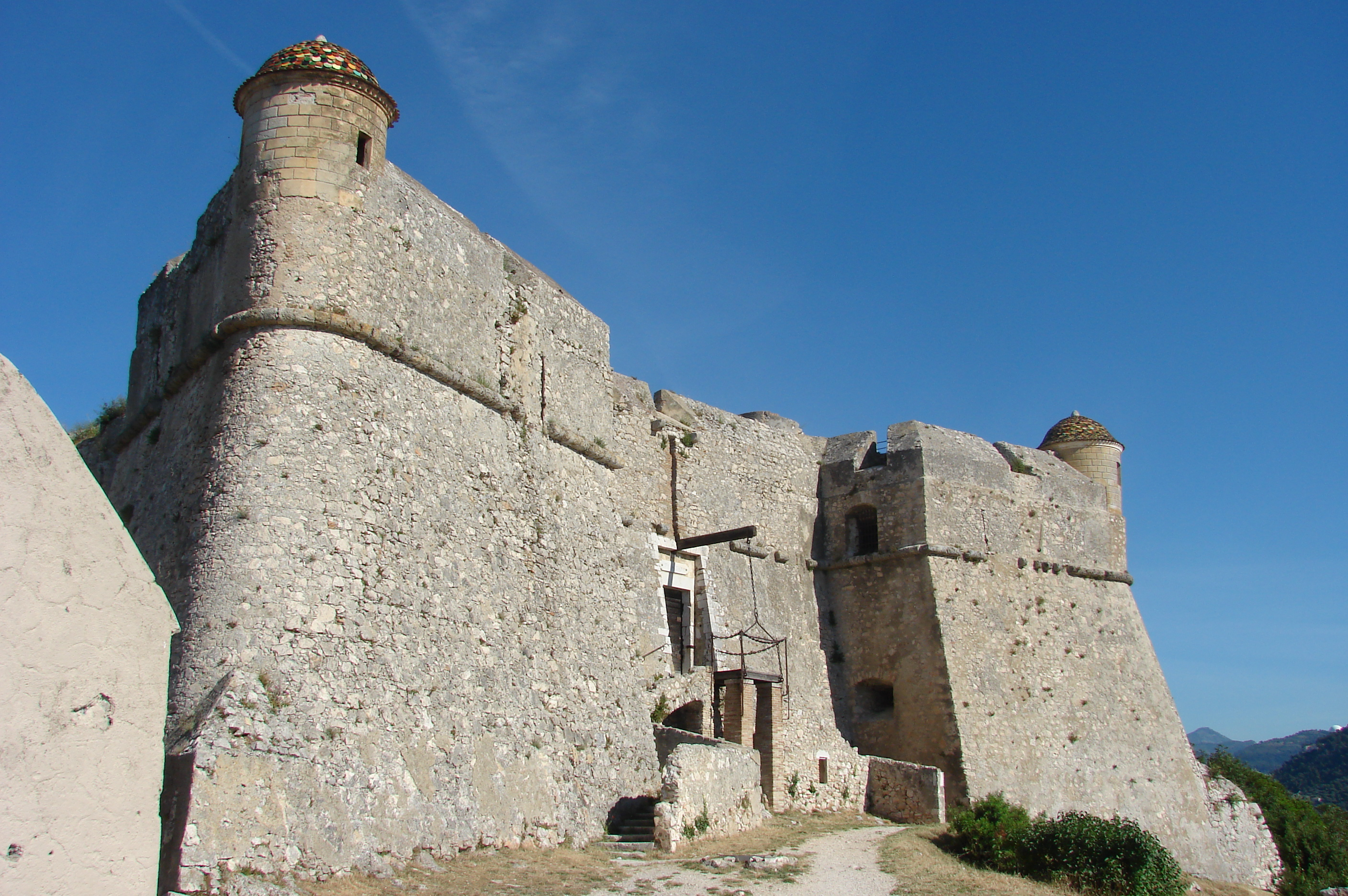 Fort Mont Alban